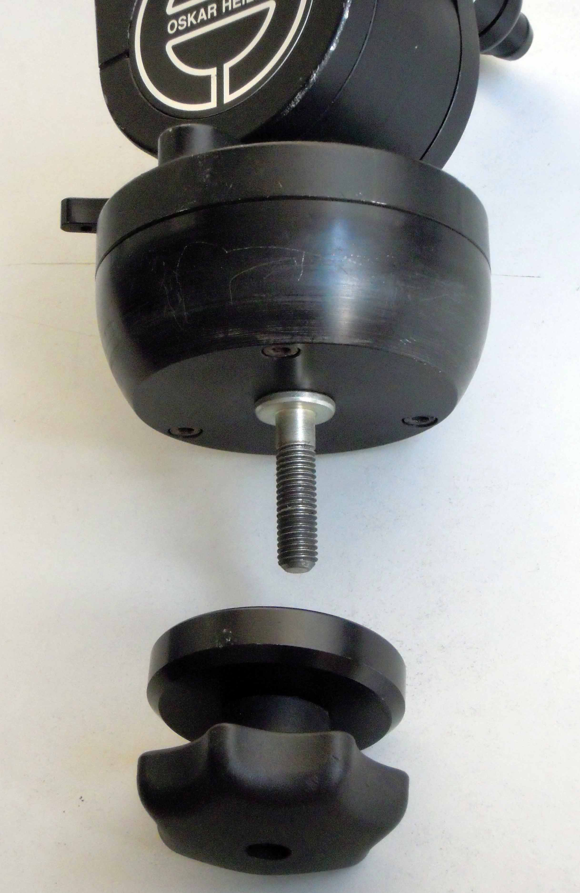 Fluid Head with Bowl fitting